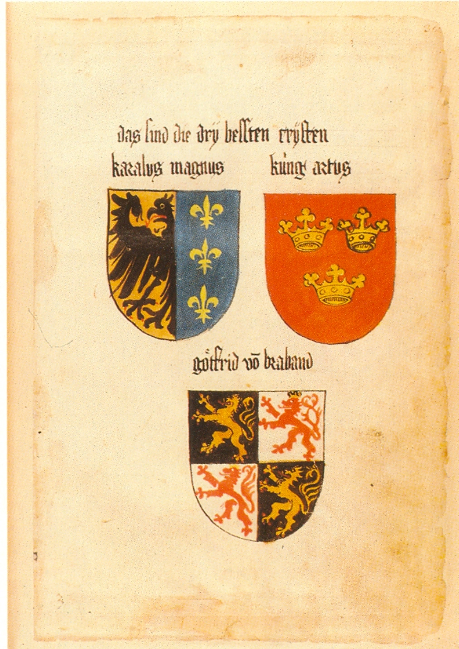 Attributed arms of Charlemagne, King Arthur, and Godfrey of Bouillon, three of the "Nine Worthies"